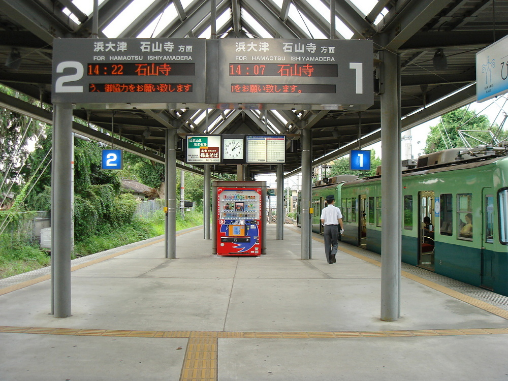 Keihan Sakamoto Station platform